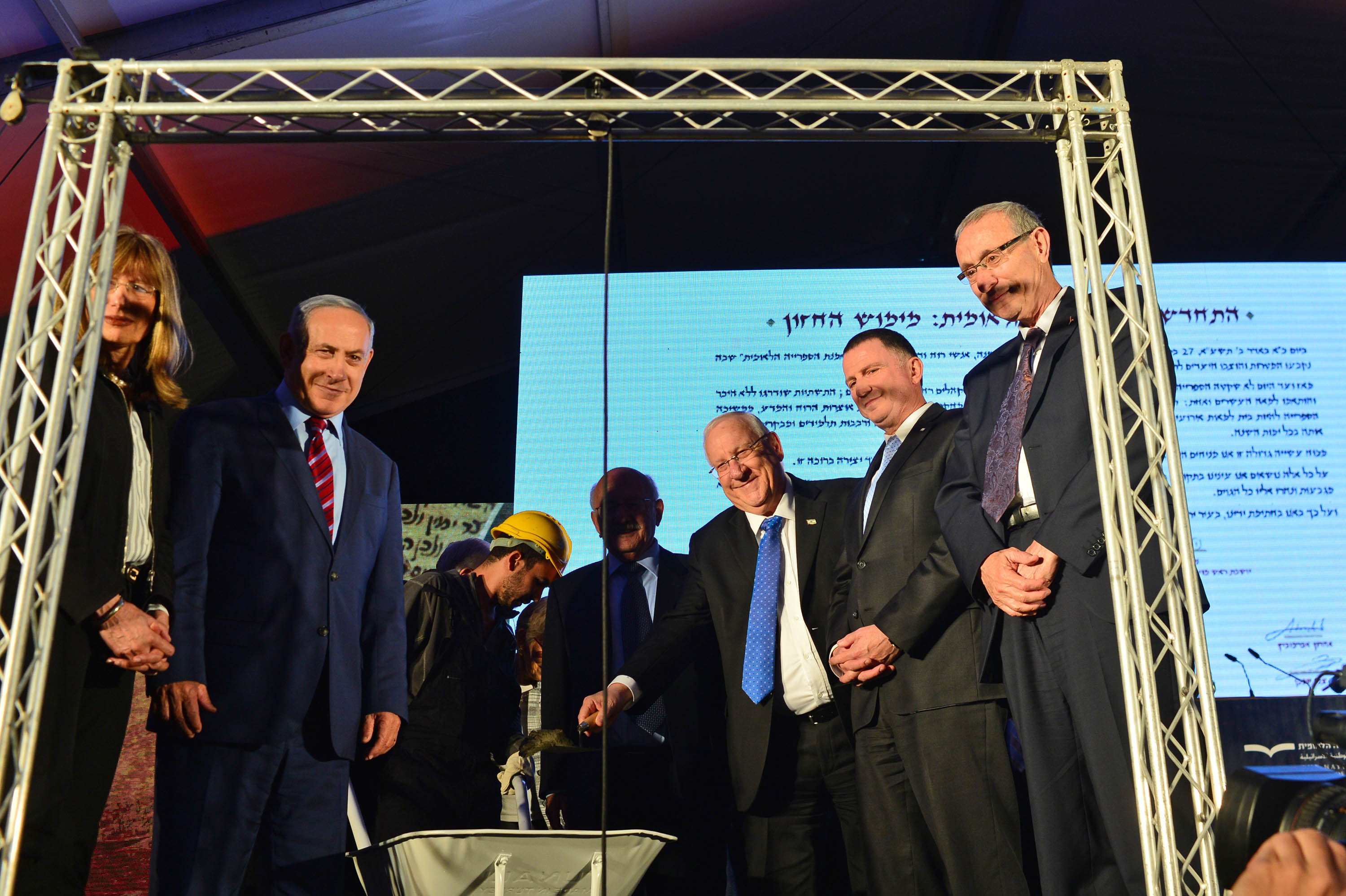 נשיא המדינה ראובן רובי ריבלין וראש הממשלה בנימין נתניהו בטקס הנחת אבן פינה למשכן הספריה הלאומית בקריית הממשלה בירושלים נשיא המדינה מניח בטון על אבן הפינה